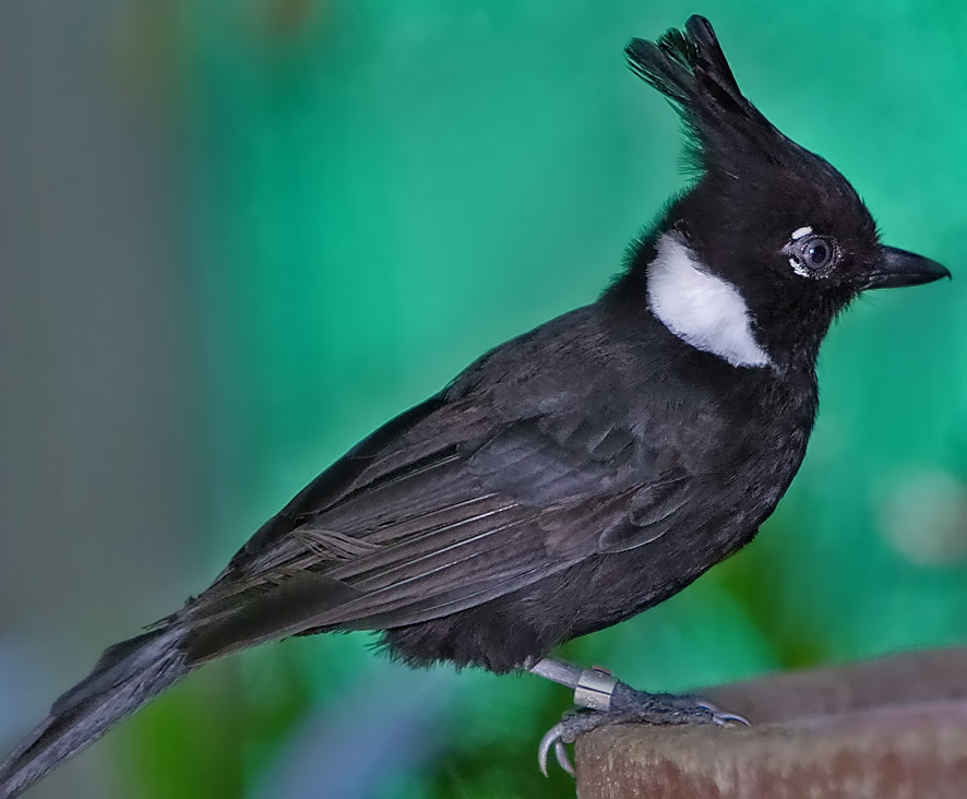 Crested Jay - Jurong Bird Park, Singapore